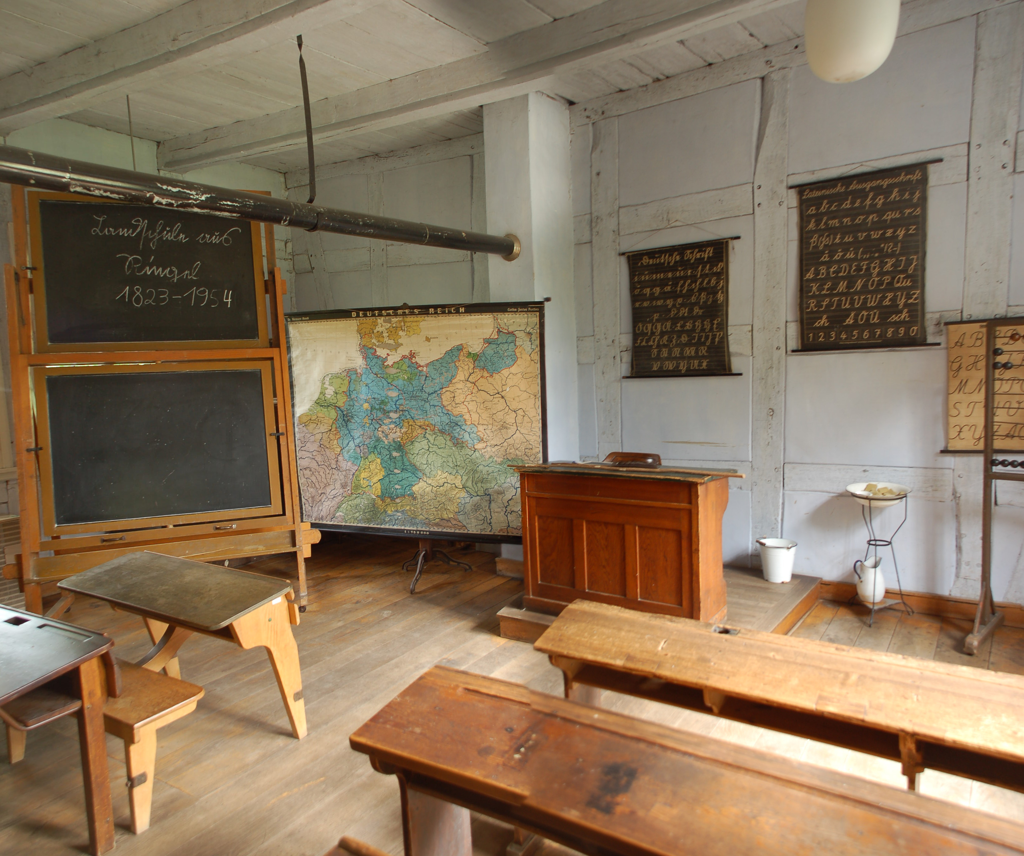 Class room